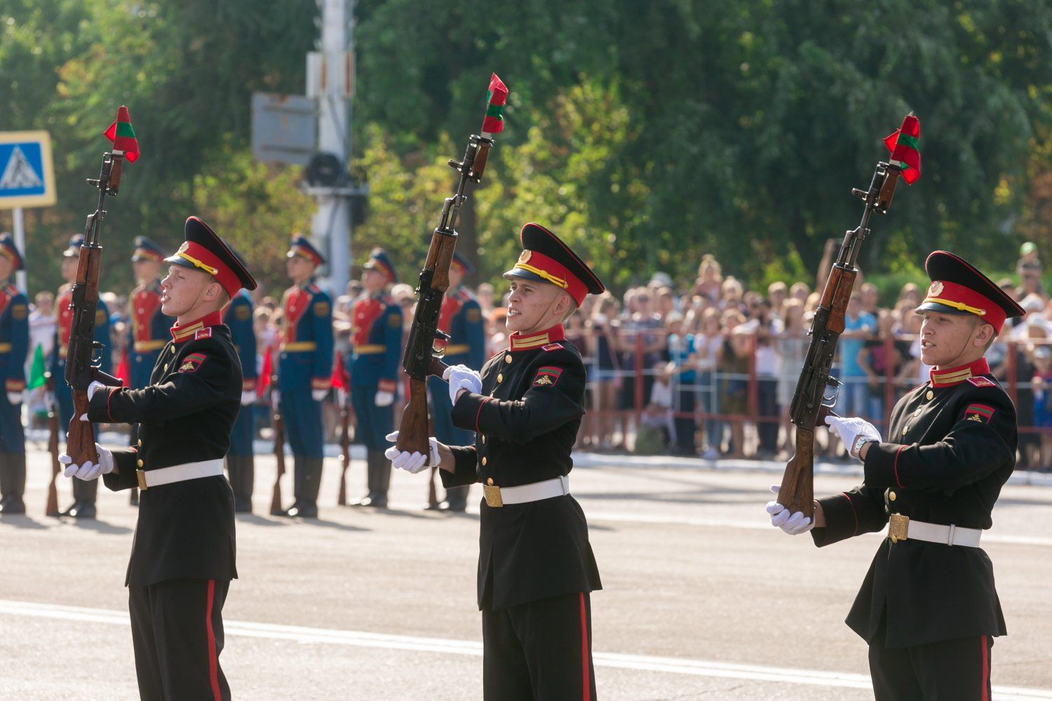 Президент ПМР назвал 2 сентября 1990 года символом торжества воли народа